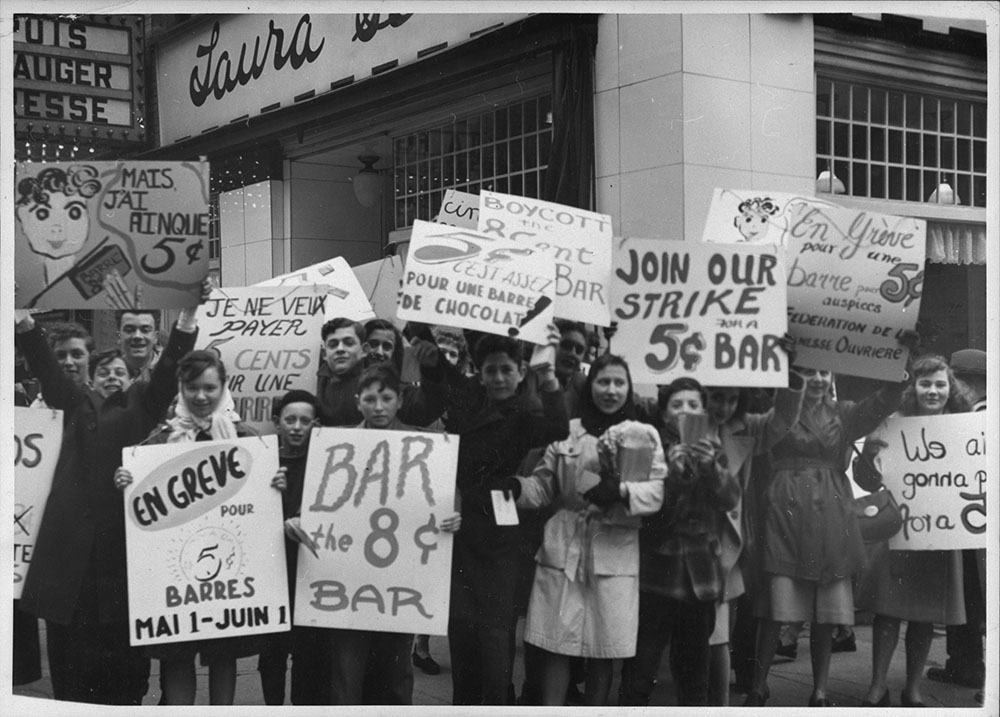 Title / Titre : Candy bar strike, Montreal, Quebec / Grève concernant les friandises, Montréal (Québec) Creator(s) / Créateur(s) : Canadian Tribune Date(s) : May 1947 / mai 1947 Reference No. / Numéro de référence : MIKAN 3364740 Location / Lieu : Montreal, Quebec, Canada / Montréal, Québec, Canada Credit / Mention de source : Canadian Tribune. Library and Archives Canada, PA-093691 / Canadian Tribune. Bibliothèque et Archives Canada, PA-093691